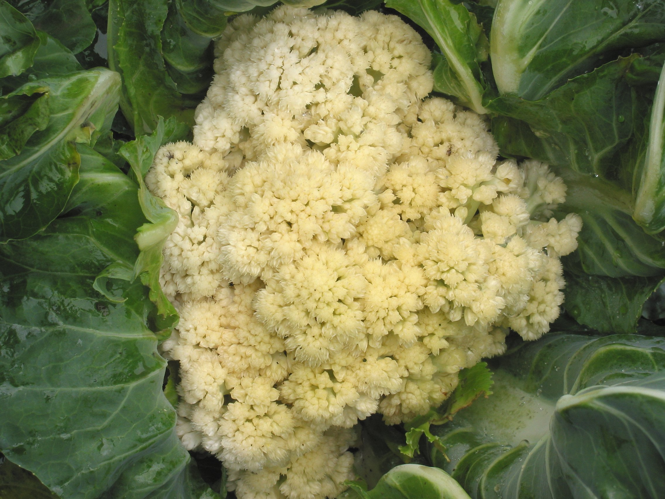 (nl: Bloemkool doorwas) Brassica oleracea, cauliflower